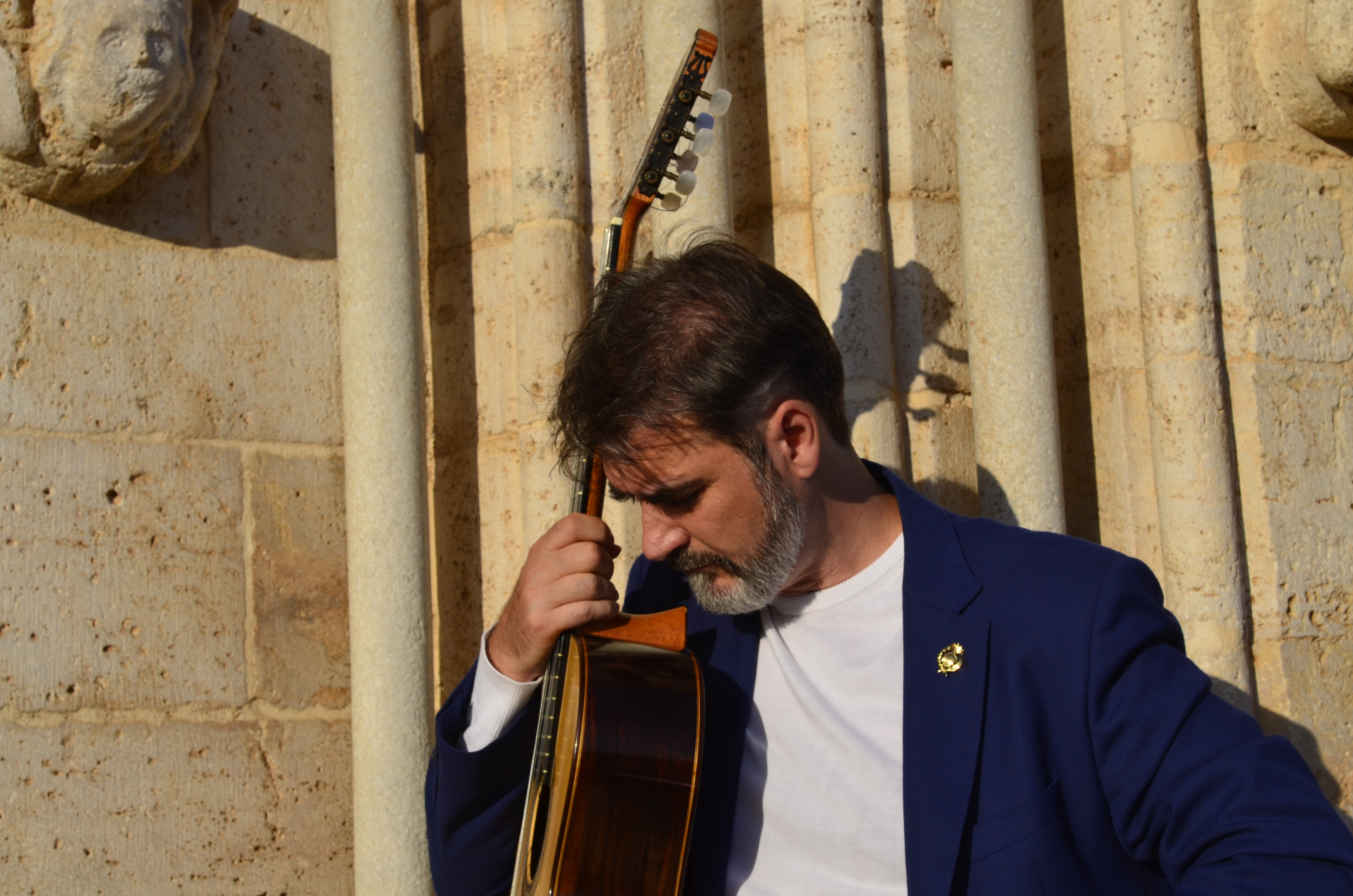 Spanish guitarist Rafael Serrallet poses before his concert in Llíria, first public performance in Valencia after the confinement due to COVID-19